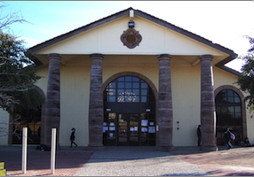 Main building of the UNHP Campus